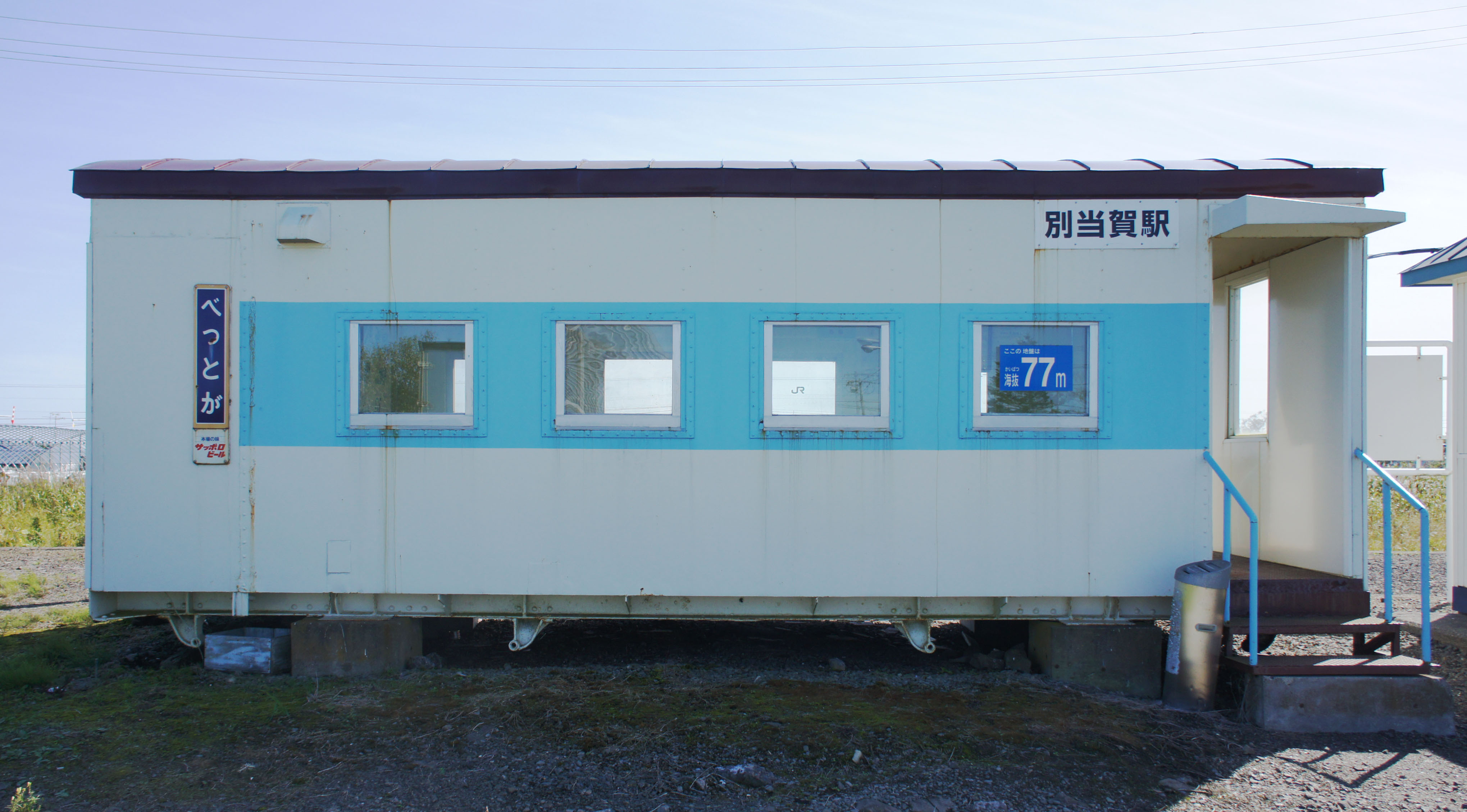 Station building of JR Nemuro-Main-Line Bettoga Station